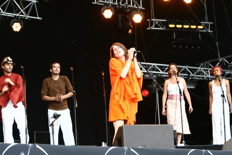 Camille at the Eurockéennes 2008